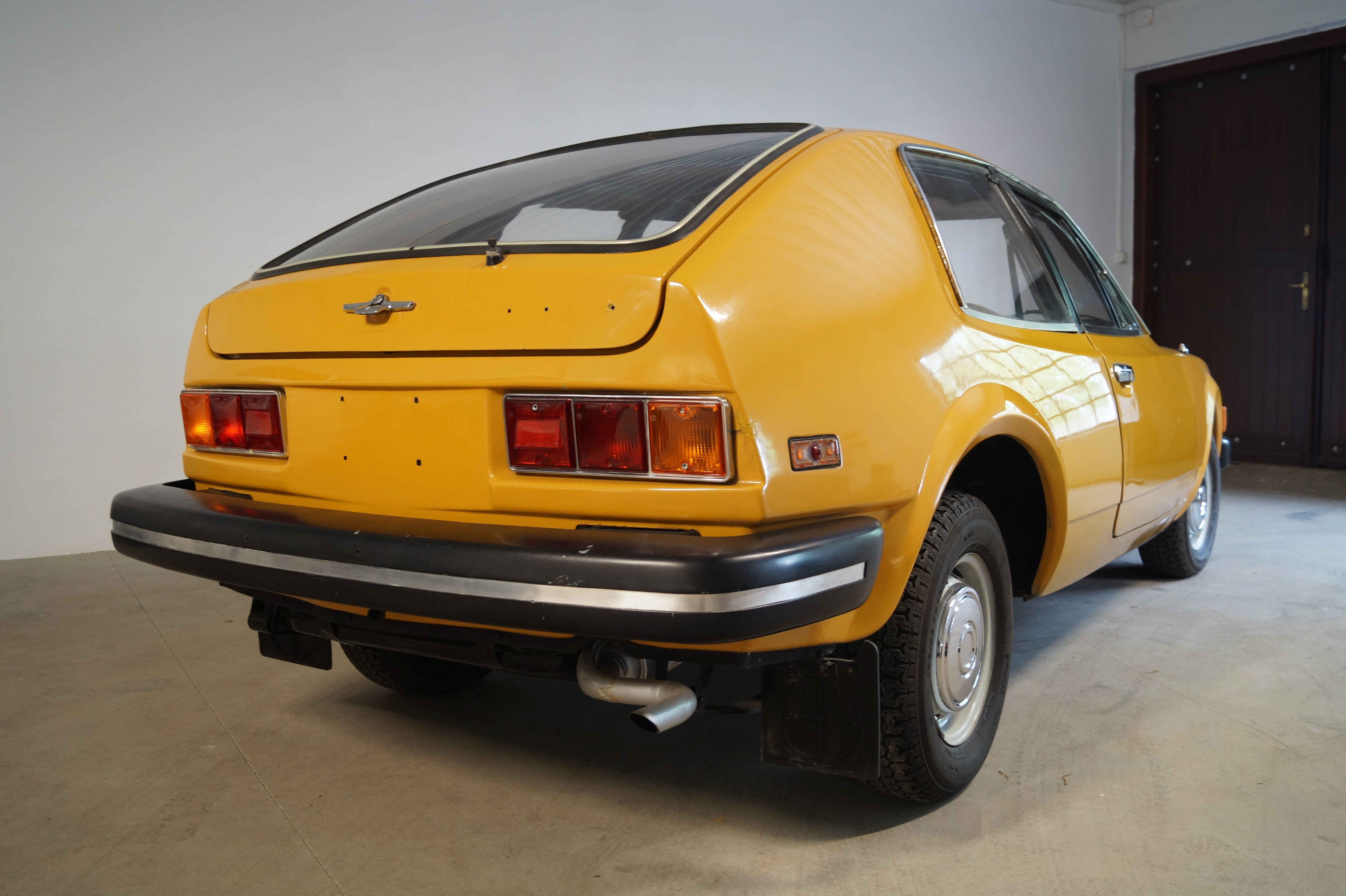 The making of this document was supported by Wikimedia Polska Association, within Wikigrant no. WG 2016-18. English | polski | +/− Tył FSO Ogara w Muzeum w Chlewiskach